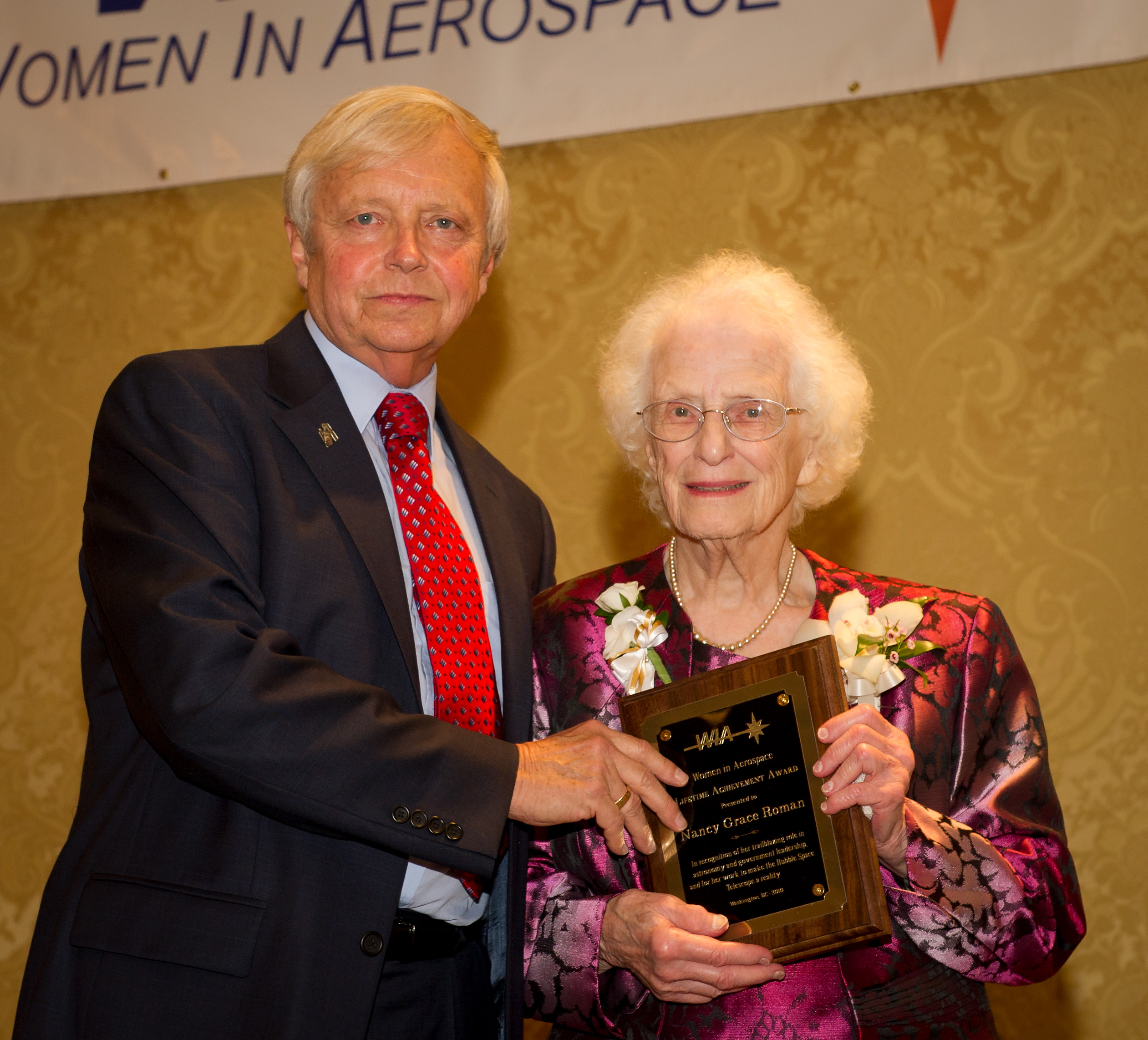 NASA's Associate Administrator of the Science Mission Directorate Dr. Edward J. Weiler presents the Women in Aerospace's Lifetime Achievement Award to retired NASA chief astronomer Nancy Grace Roman at the organization's annual awards ceremony and banquet held at the Ritz-Carlton Hotel in Arlington, VA on Tuesday, Oct. 26, 2010.